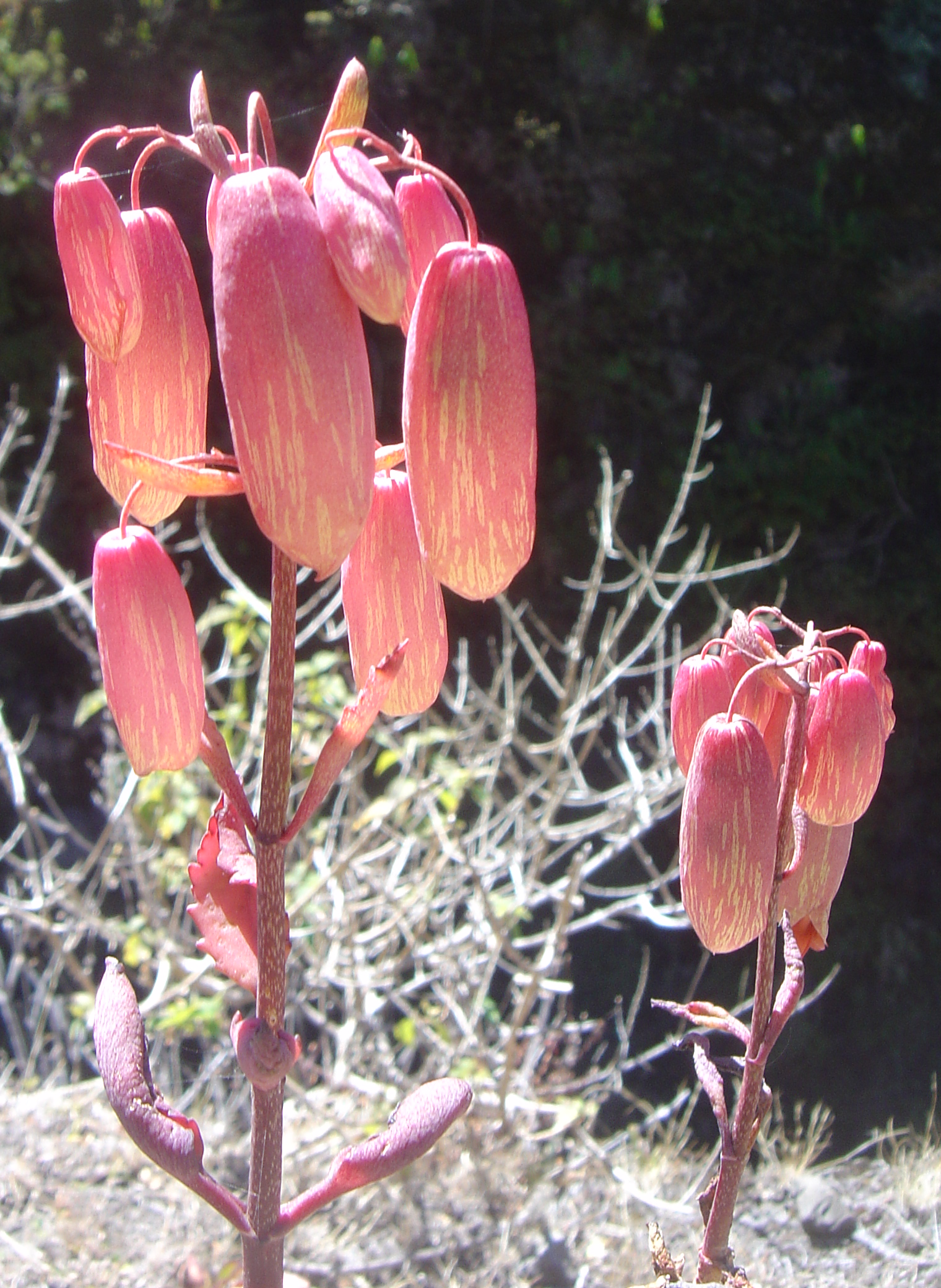 Unknown flower from Réunion (mountains) This is the Air plant (Kalanchoë) I'd say K. pinnata - Marshman 00:20, 9 September 2005 (UTC)